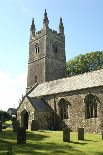 St Pancras Church, Pancrasweek. Viewed from the churchyard.